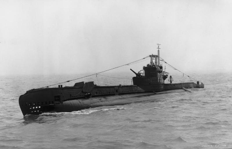 British S class submarine HMS SPEARHEAD underway. She was sold to Portugal in 1948 and became Neptuno.